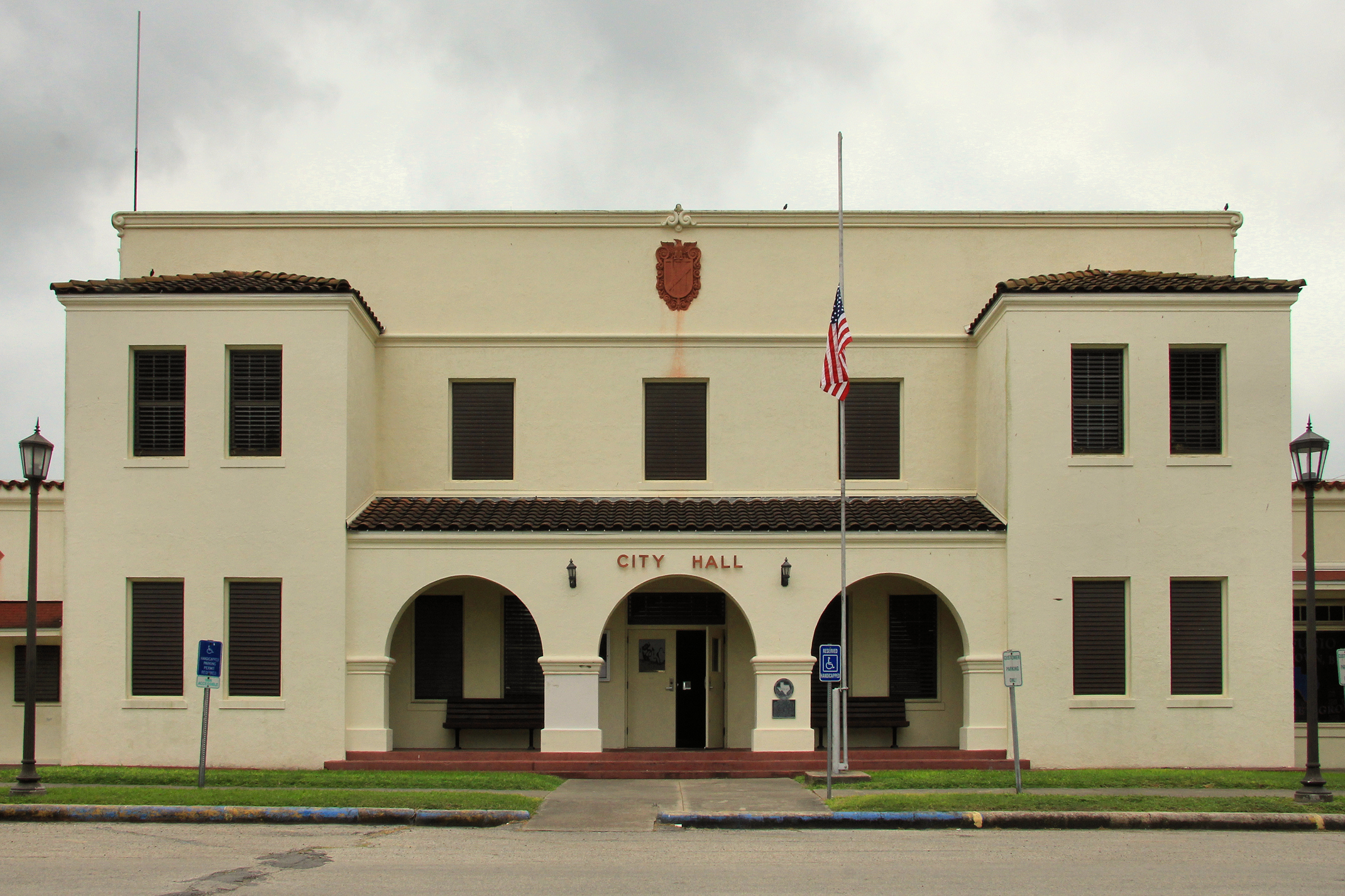 The Refugio City Hall in Refugio, Texas, United States. Built in 1936 with assistance of the Public Works Administration. Designated a Recorded Texas Historic Landmark in 1990.